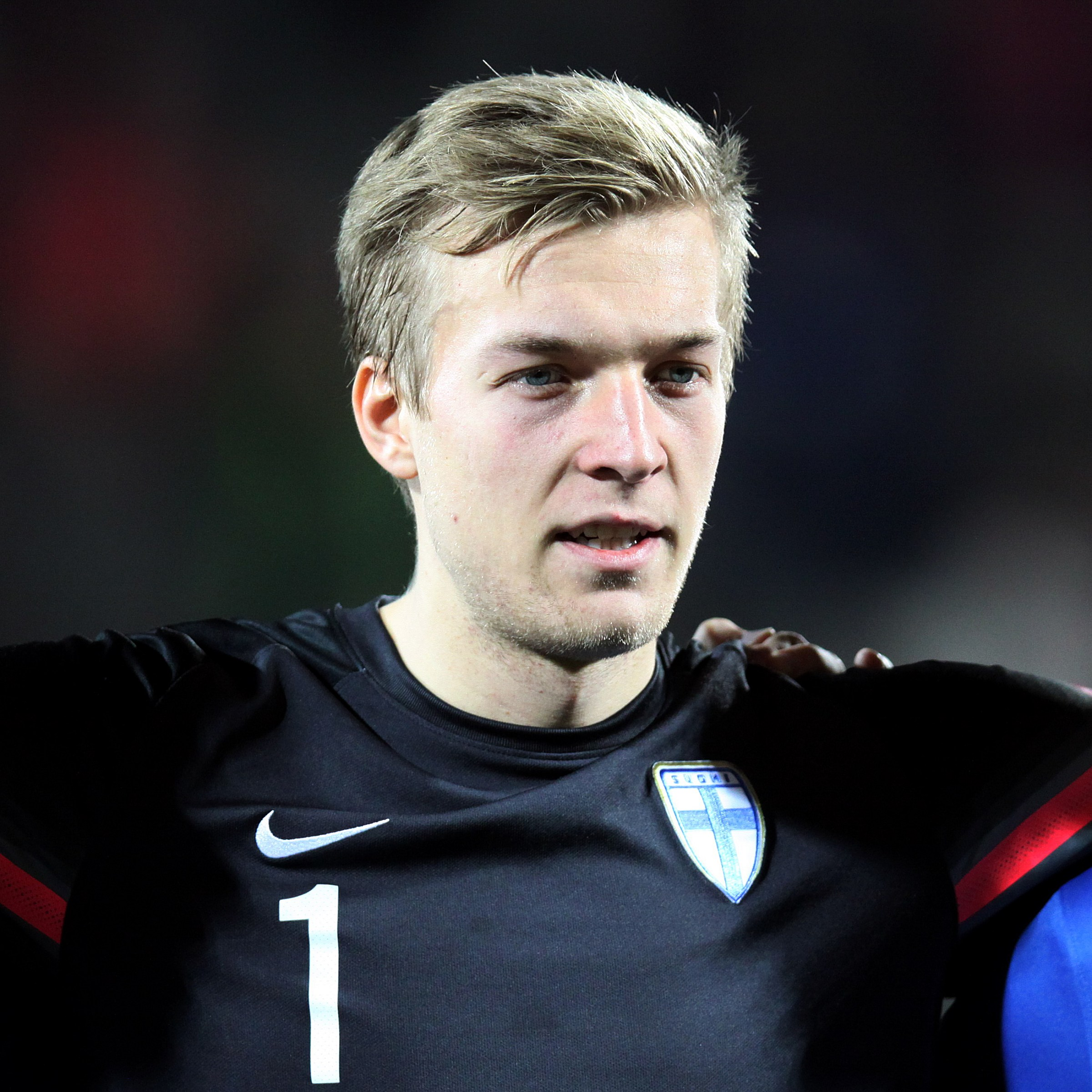 2017 UEFA European Under-21 Championship qualification – Austria U-21 (red shirts) vs. Finland U-21 (blue shirts) 2-0 (0-0) – 2015-11-13 in Vienna, Austria Arena – The photo shows the goalkeeper of Finnland Otso Virtanen.